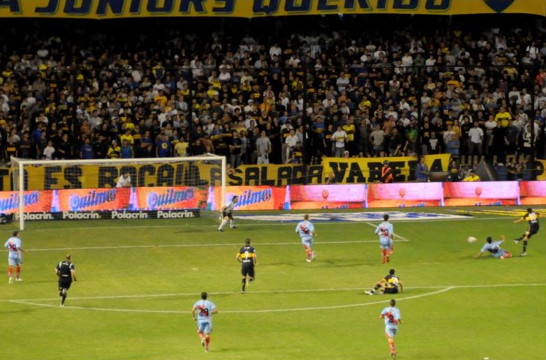 Juan Roman Riquelme, midfielder of Boca Juniors, scoring the 3-0 against Arsenal